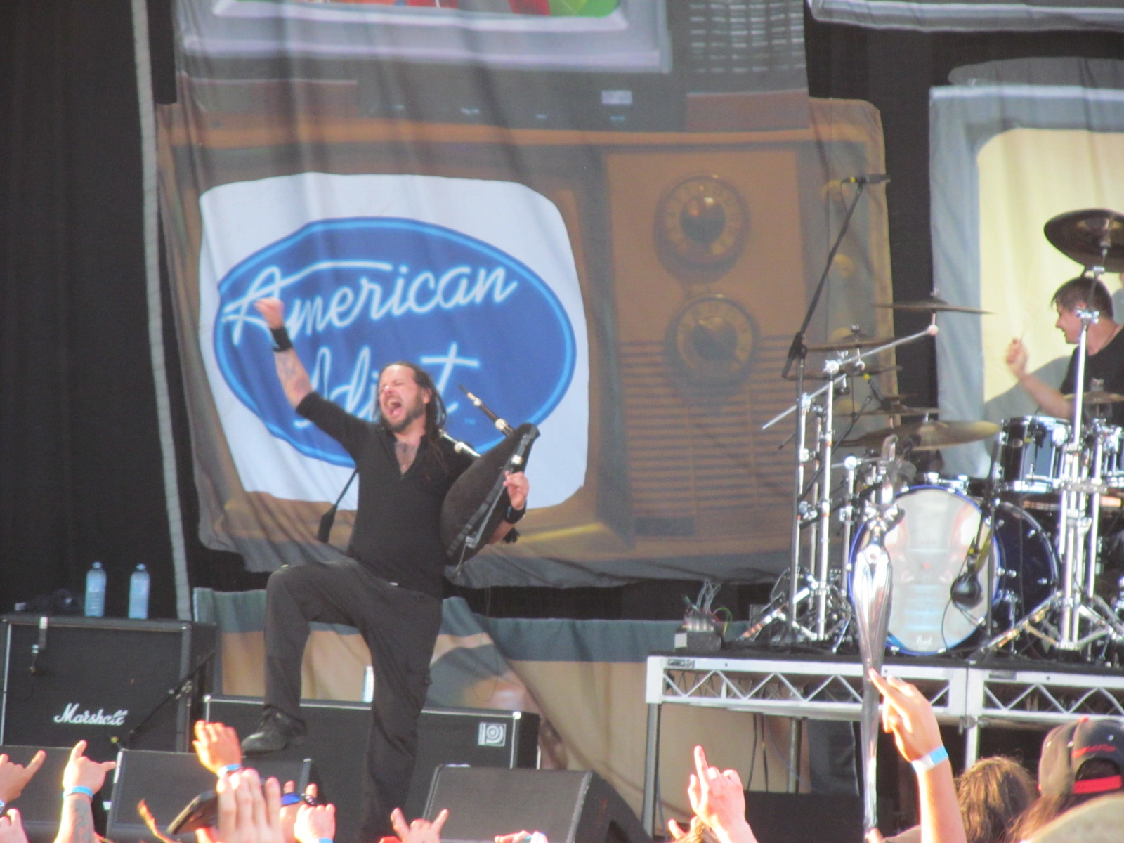 KoRn at Arena Joondalup (Perth, Western Australia) - Soundwave Festival 2014